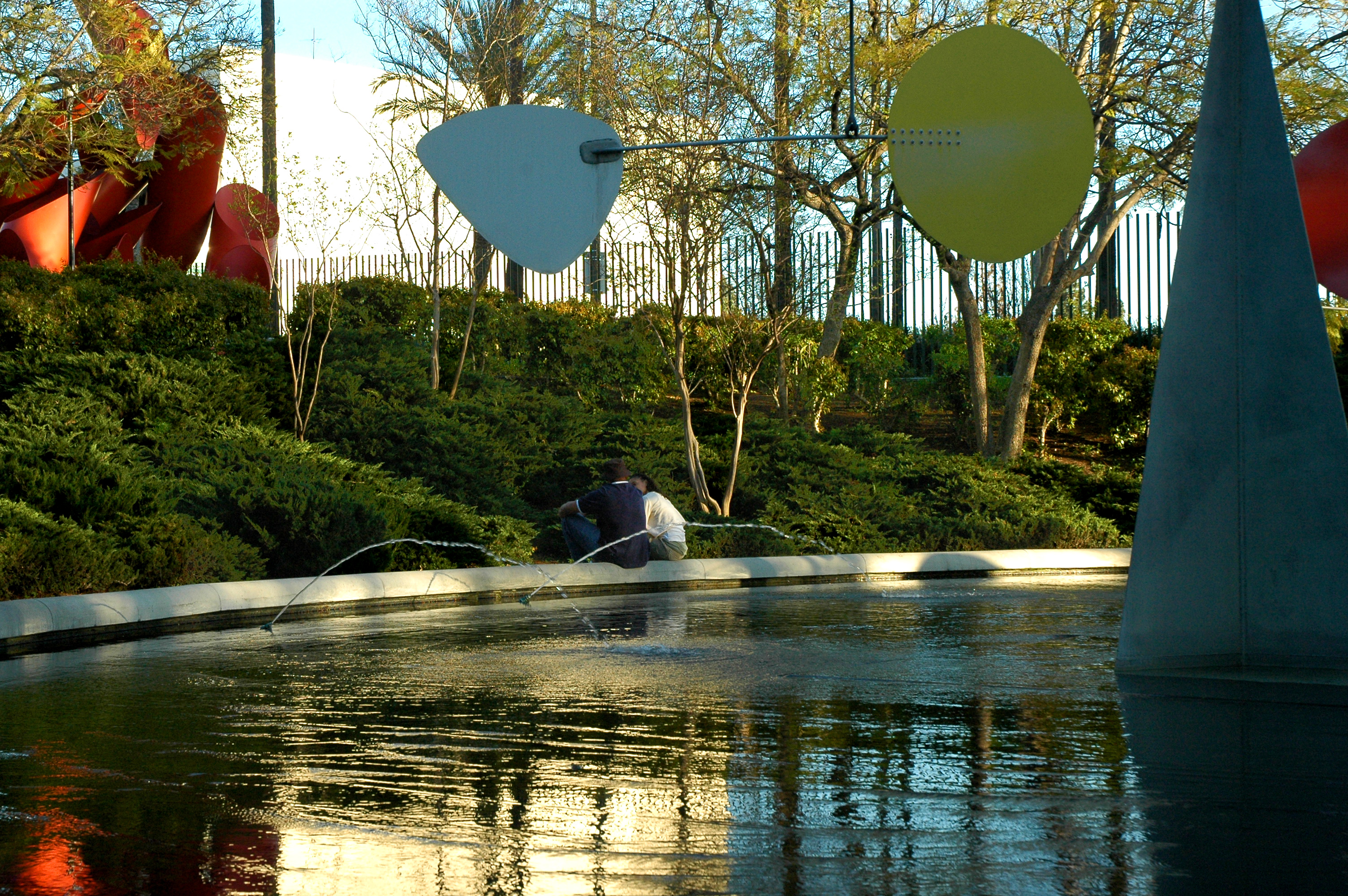 View of the Alexander Calder 'water mobile' sculpture - at the LACMA Sculpture Garden in Los Angeles.